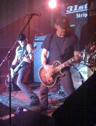 Karma to Burn performing at the Koko Club, DESERTFEST 2015 in London